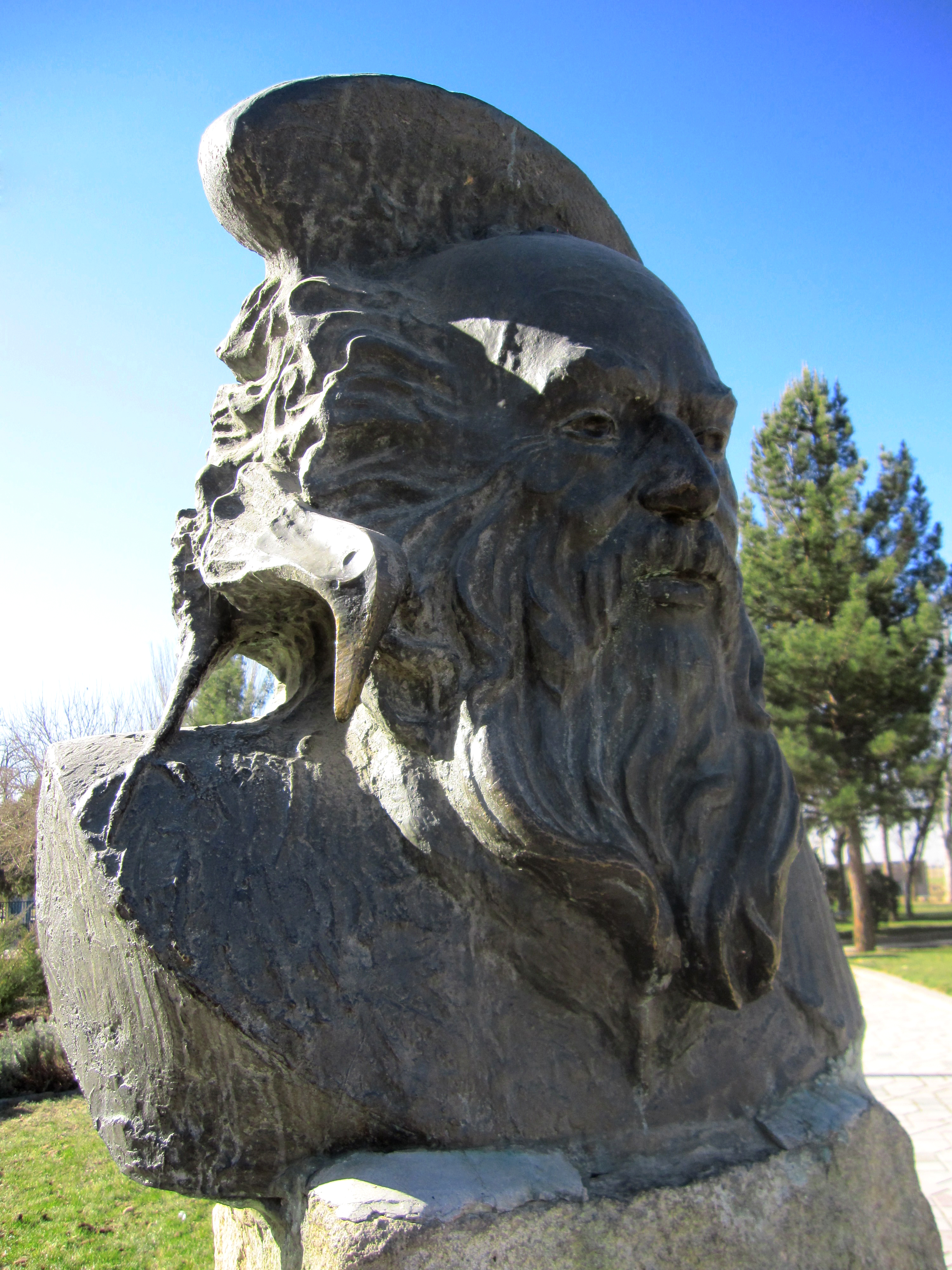 Iran - Neyshabour - Attar Neyshabouri's tomb & statue - Information in page 1